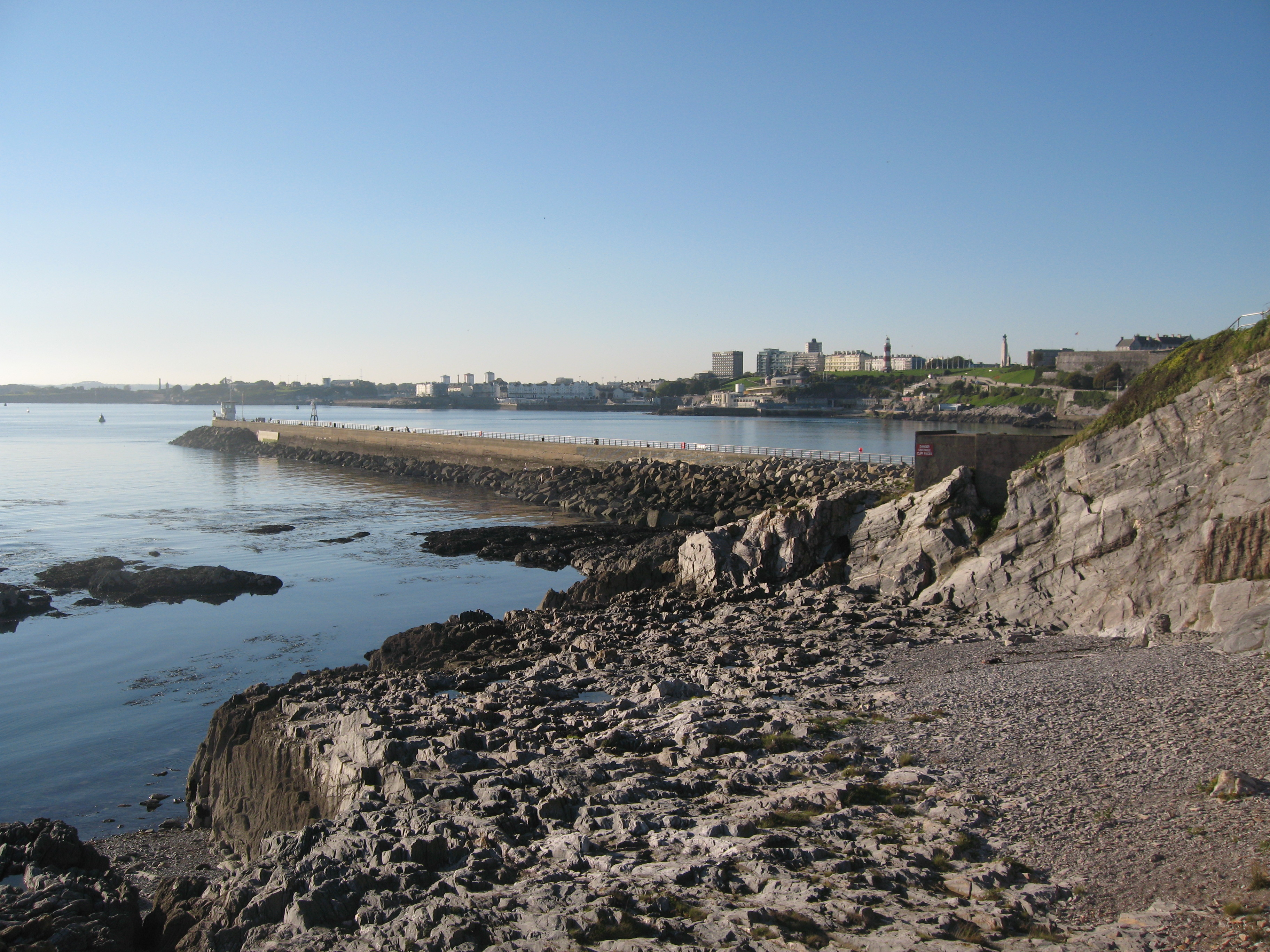 Mount Batten breakwater viewed from the beach